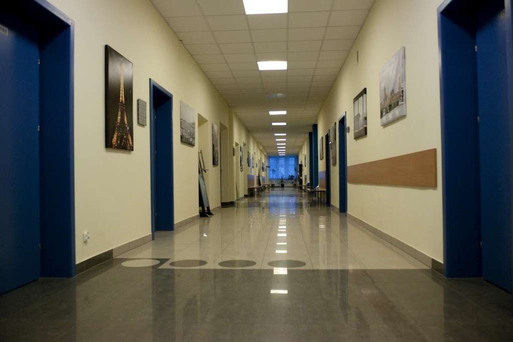 Inside the WSF building.